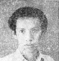 Indonesian writer SM Ardan